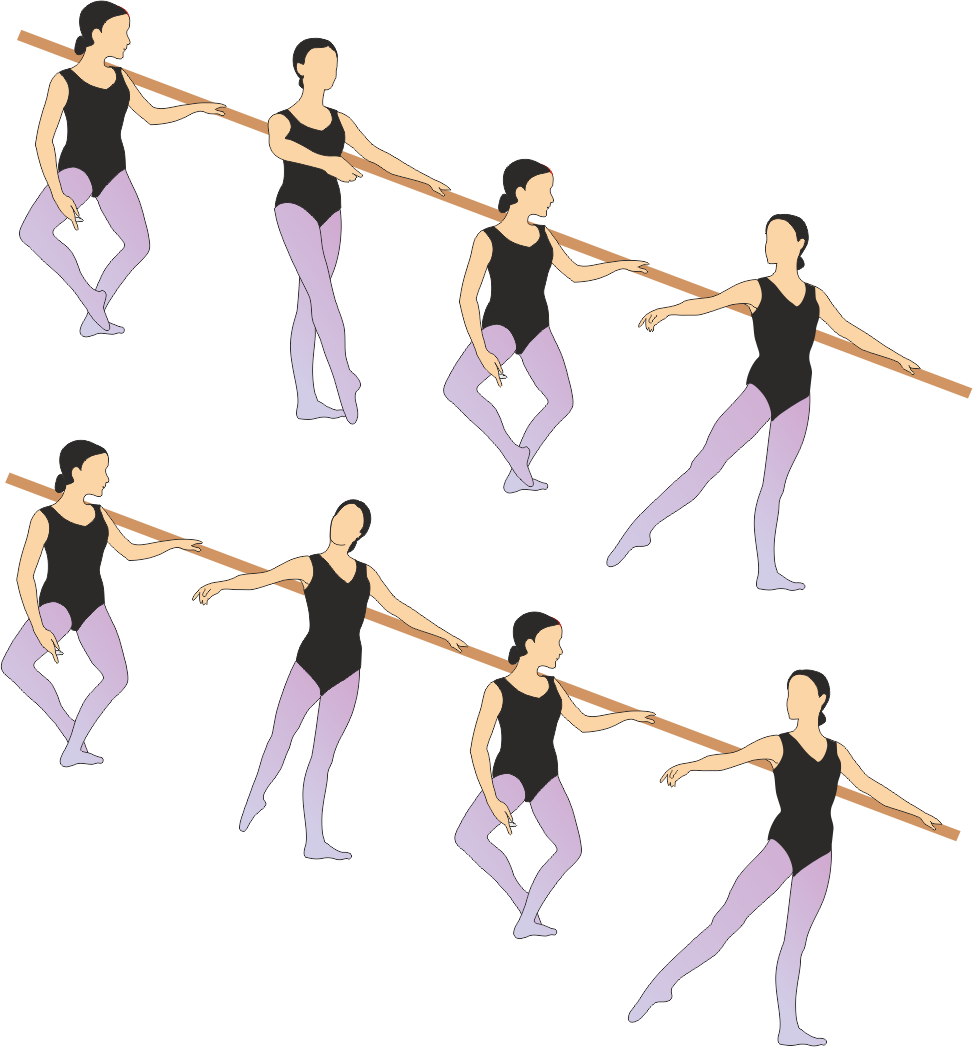 Ballet barre exercises: Fondu